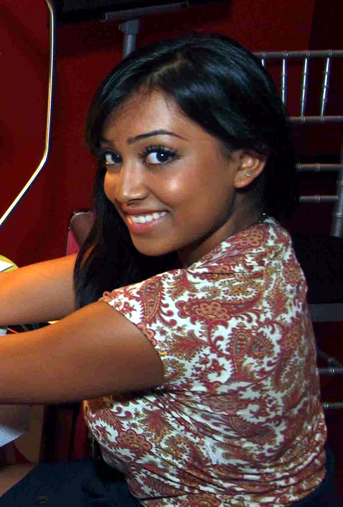 Melinda Shankar at the 2010 Gemini Awards